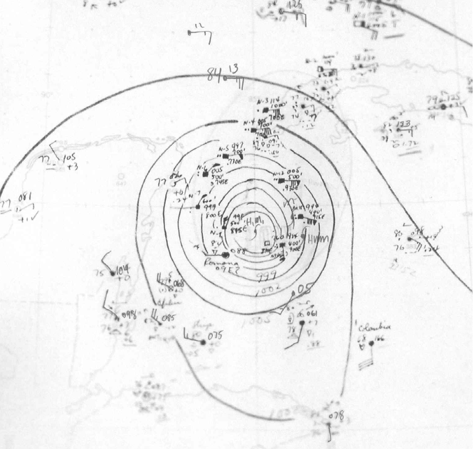 Synoptic analysis of Hurricane Charlie at 1200z on August 19, 1951.